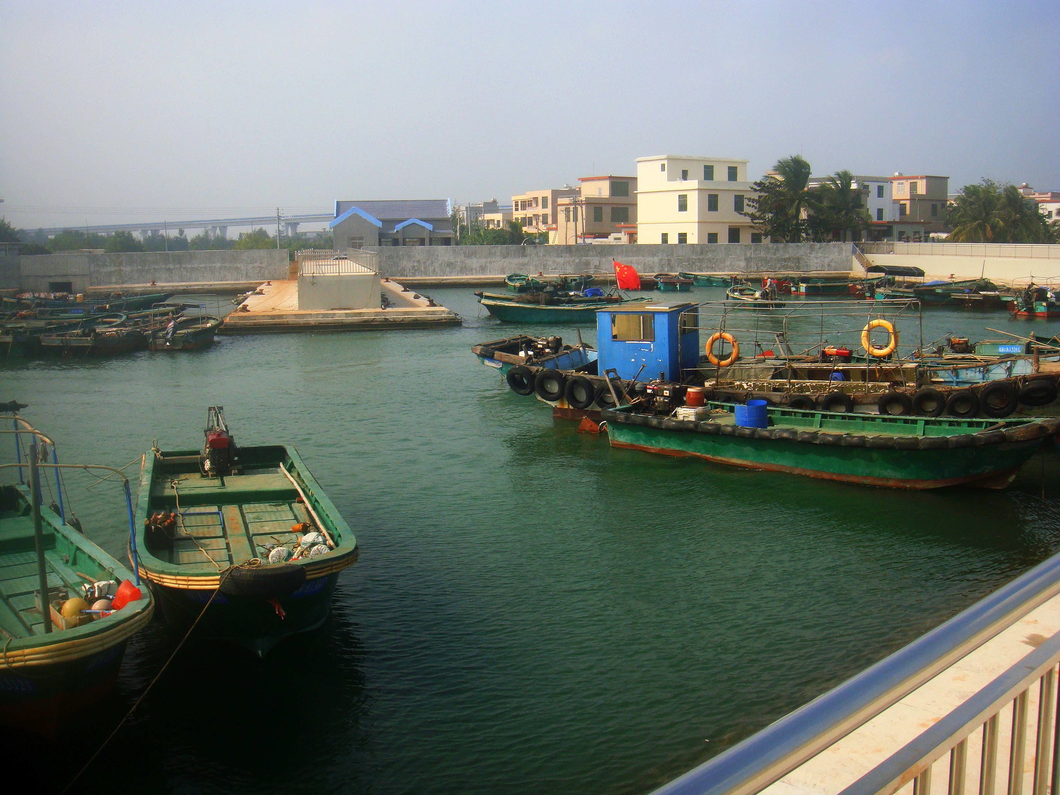 Harbour at Beigang Island